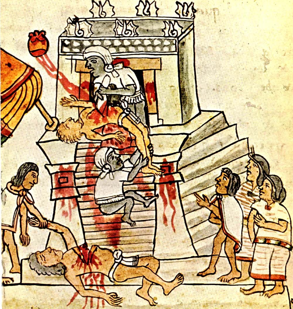 Aztec ritual human sacrifice portrayed in the page 141 (folio 70r) of the Codex Magliabechiano..